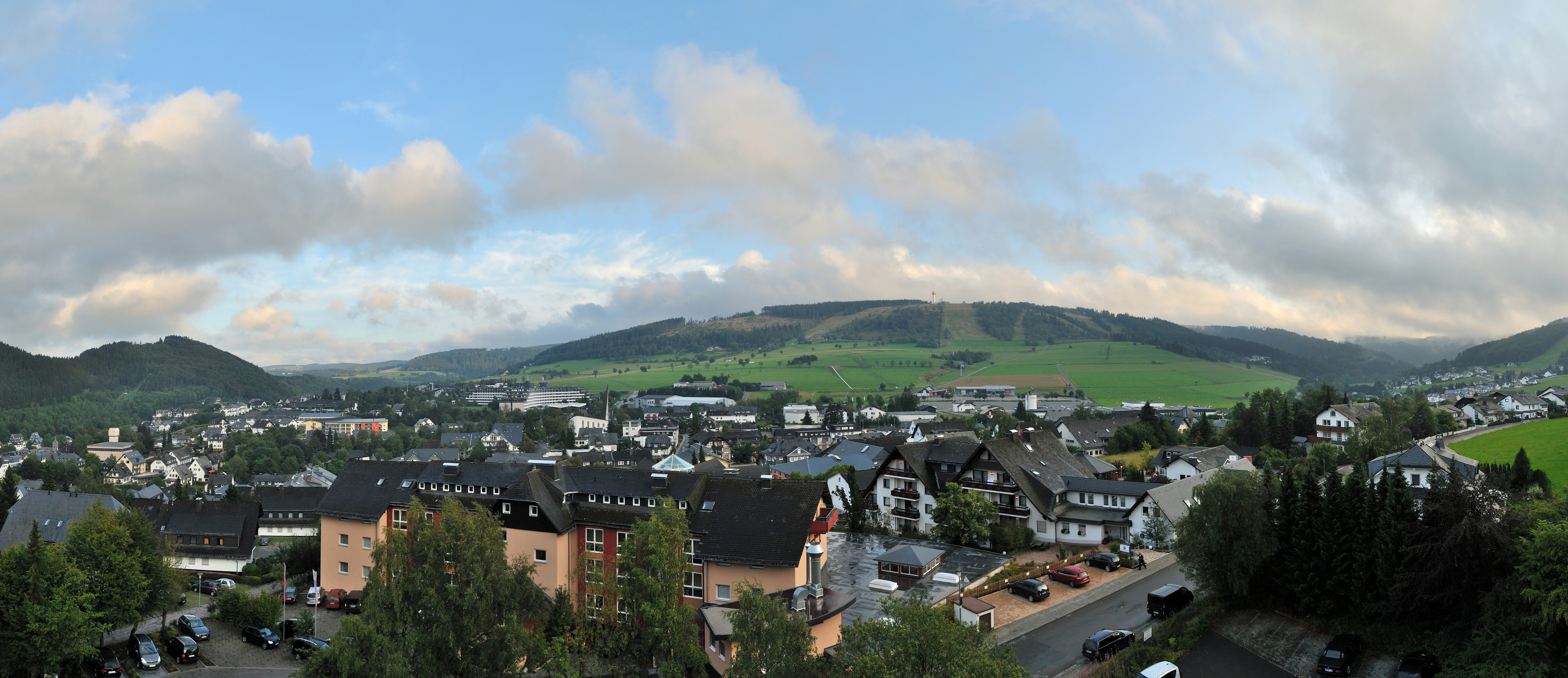 Panoramic view on the pivotal city Willingen of the municipality Willingen (Upland) in the Rothaargebirge (Hesse, Germany), viewed in the evening from northwest